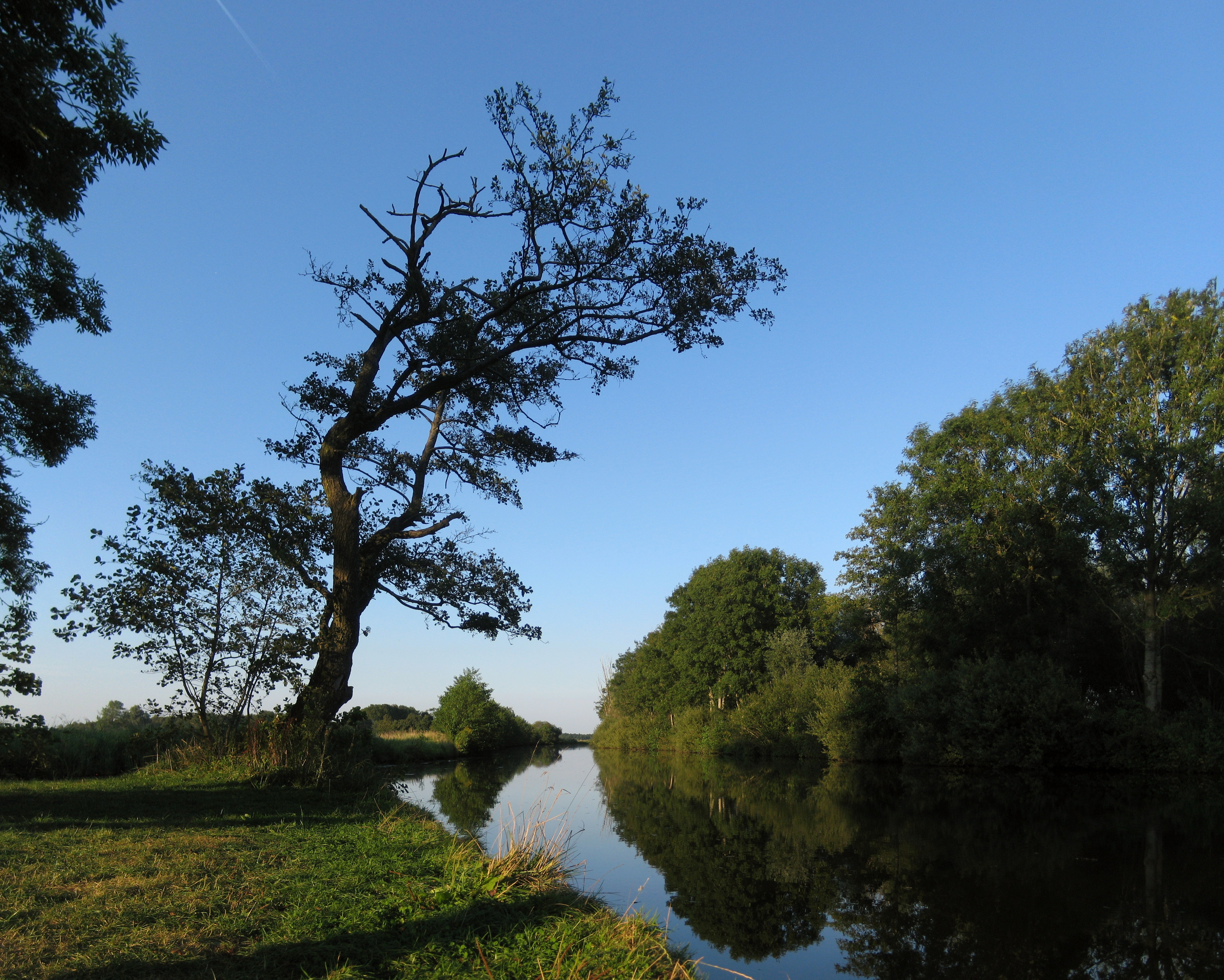 The Leekster Hoofddiep, a canal in the Dutch province of Groningen.